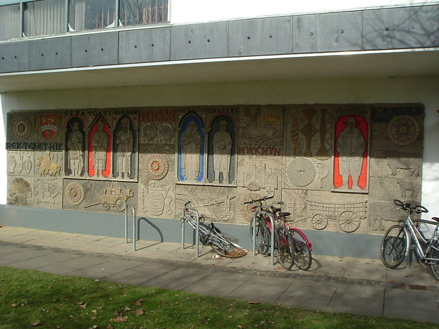 Hitchin History. This depicts the foundational history of Hitchin mentioning: King Offa, the River Hiz and the Hicce tribe. Now on the front of Hitchin Library, it was on the Sainsburys on Brand Street until the supermarket relocated to the Bancroft Road area.